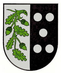 Coat of arms of Horbach (Pfalz)